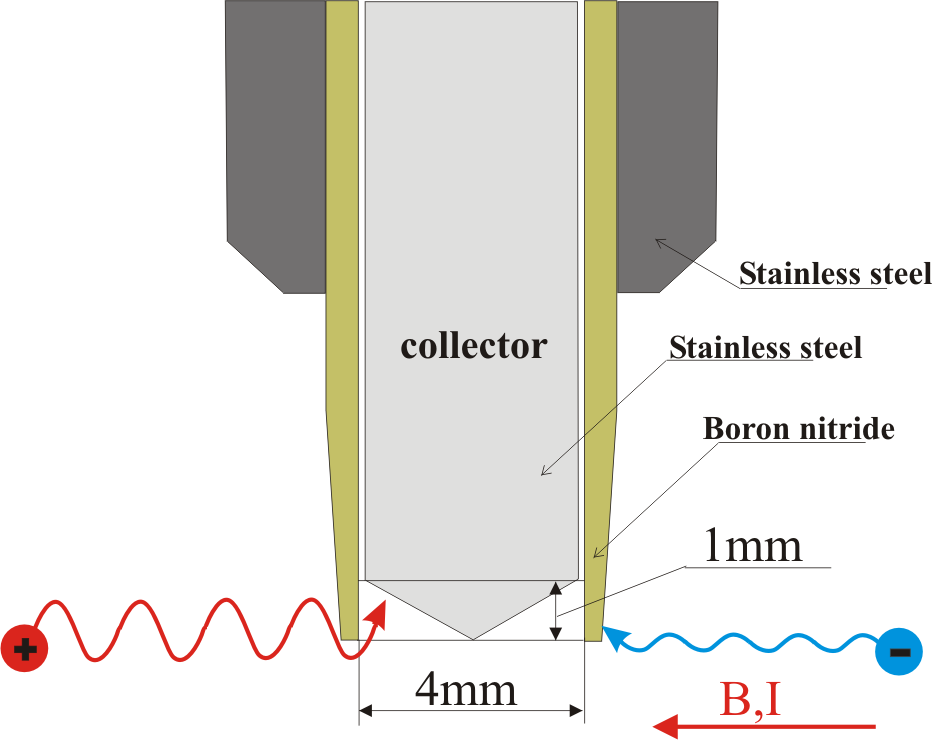 The schematic picture of single ball-pen probe with ceramic shielding tube (inner diameter 4 mm) and metal movable collector (diameter 4 mm) with retraction depth h=0mm.